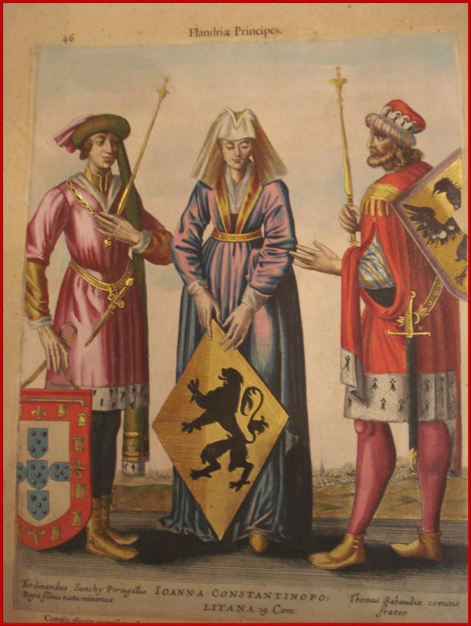 Joan of Constantinople with her two husbands, Fernando of Portugal and Thomas of Savoy